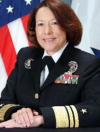 Vice Admiral Nancy E. Brown, USN